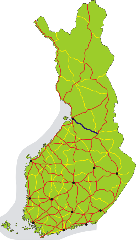 Map of the main road 22 in Finland, shown in dark blue. The other 1st class main roads (numbers 1–29) are red, 2nd class main roads (numbers 40–98) yellow. Black dots show the 12 biggest urban areas.